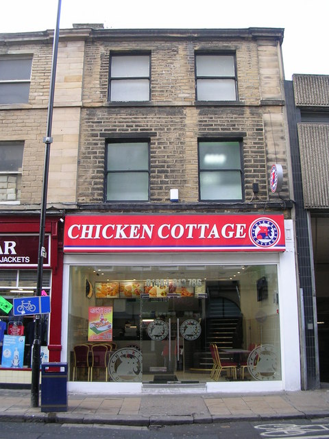 Chicken Cottage - Cross Church Street